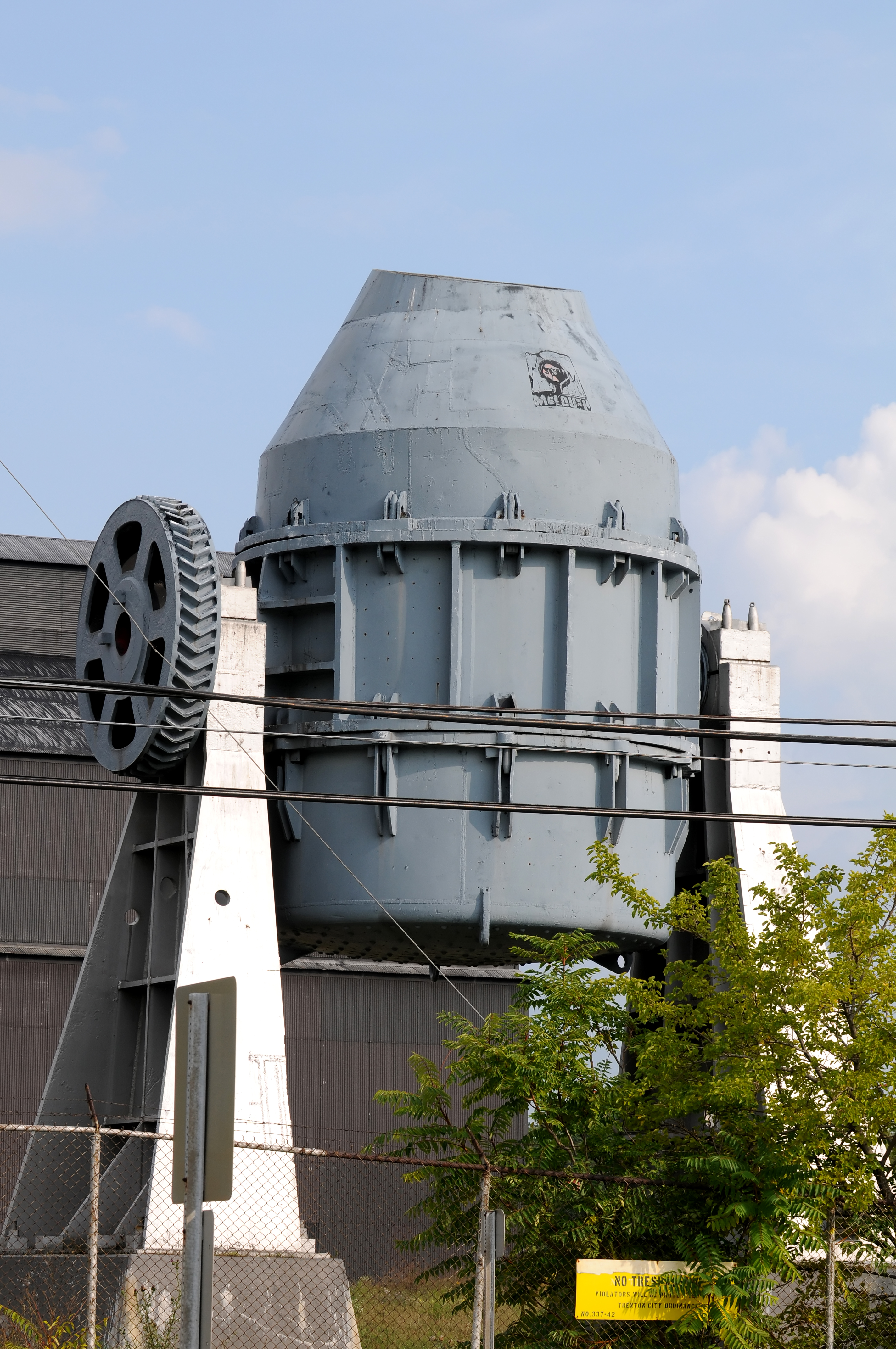 Oxygen-Process Steel-Making Vessel McLouth Steel Products Corporation.